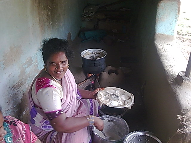 a rural IDLY shop in Tamil Nadu